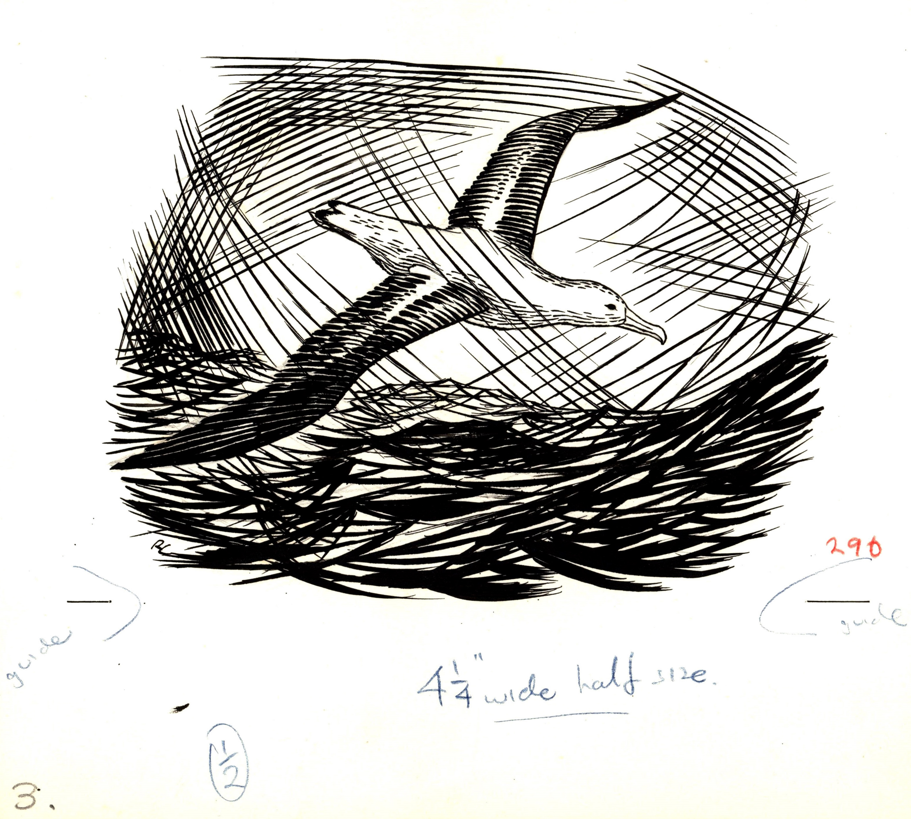 The sea bird image above is from a folder of original artworks produced for Samoan school publications. The first 2 readers for Samoan schools were printed in 1948. These were followed by publications relating to other Pacific Island nations. This record series (782), and series 6009, appear to comprise of artworks mainly for these publications. They were transferred to Archives New Zealand from the Department of Education. Artist: Russell Clark Archives New Zealand Reference: AAAD 782 W2708 Box 21 For further enquiries please For updates on our On This Day series and news from Archives New Zealand, follow us on Twitter Material from Archives New Zealand Te Rua Mahara o te Kāwanatanga